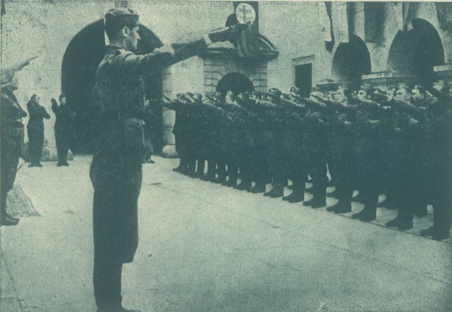 Hlinka Guard officers sworn in